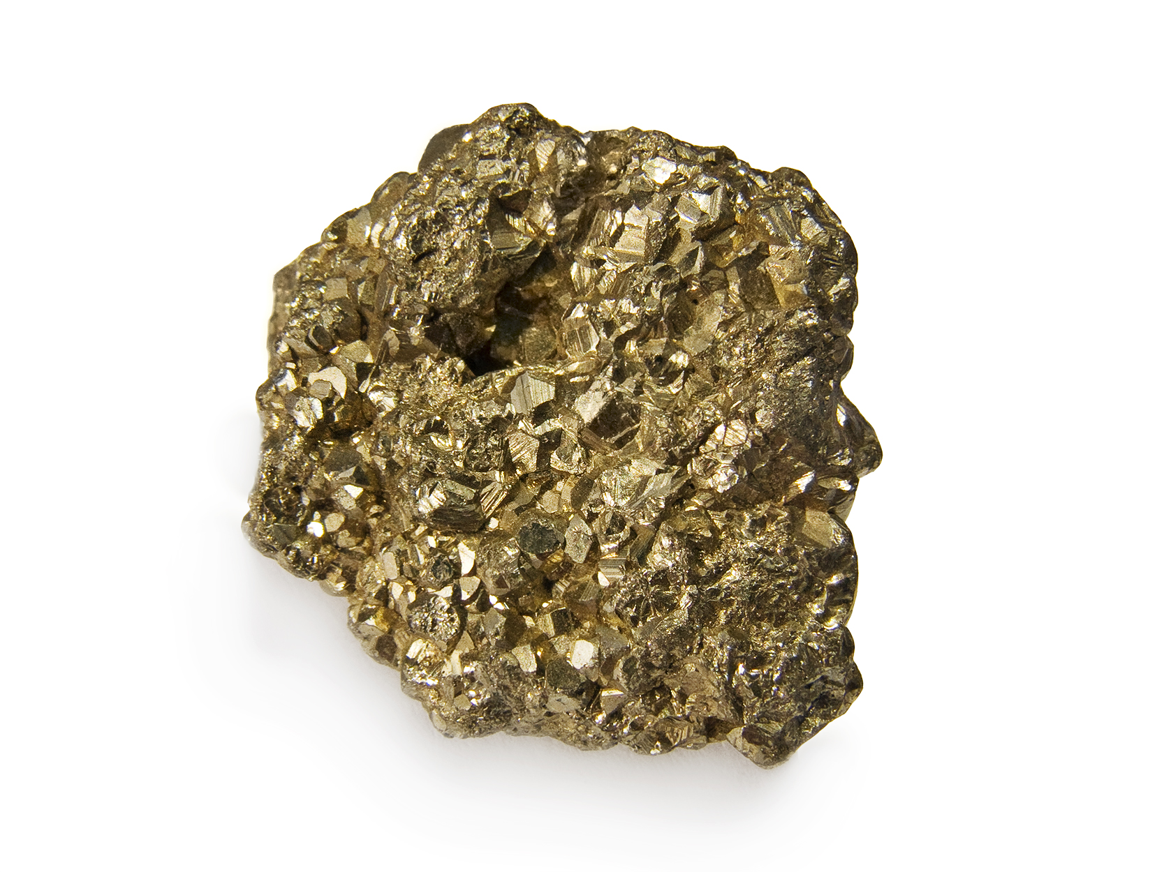 A clump of Pyrite crystals